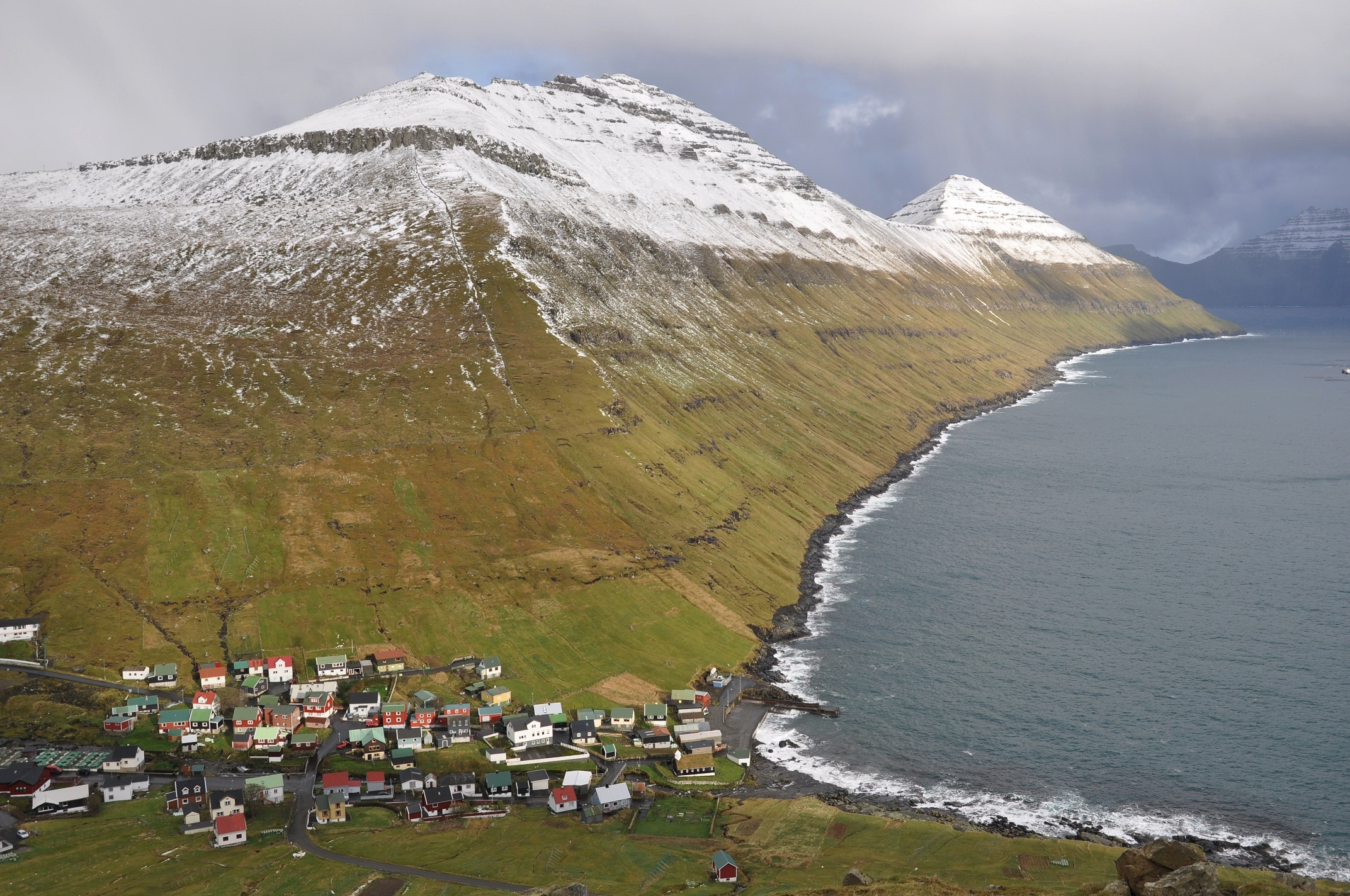 Funningur on the island Eysturoy (Faroe Islands) with the Middagsfjall (centre, 601 m) and the pyramid-shaped Tyril (right, 535 m).